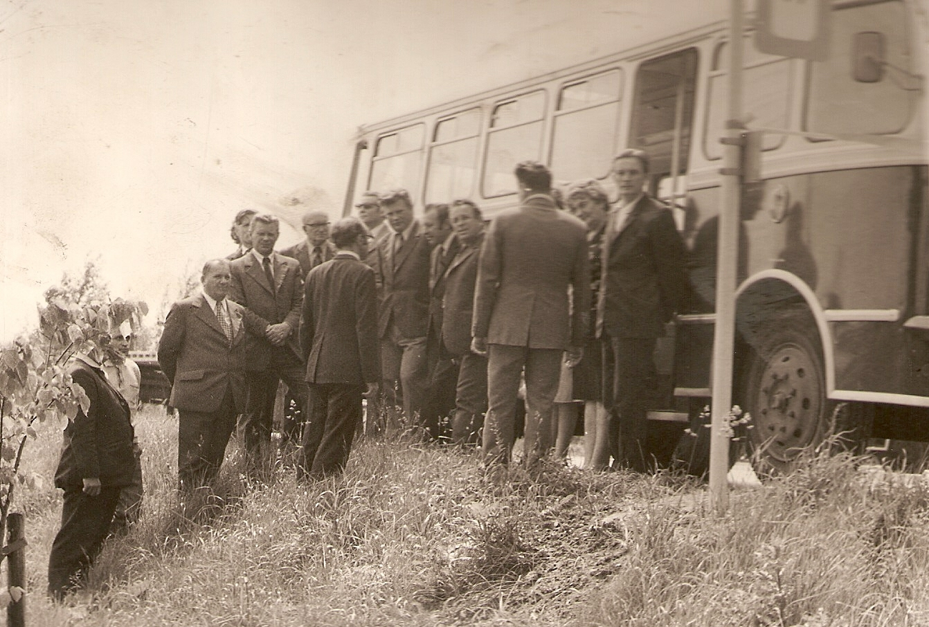 Bus in Ostróda, Poland. ZKM Ostróda operator.